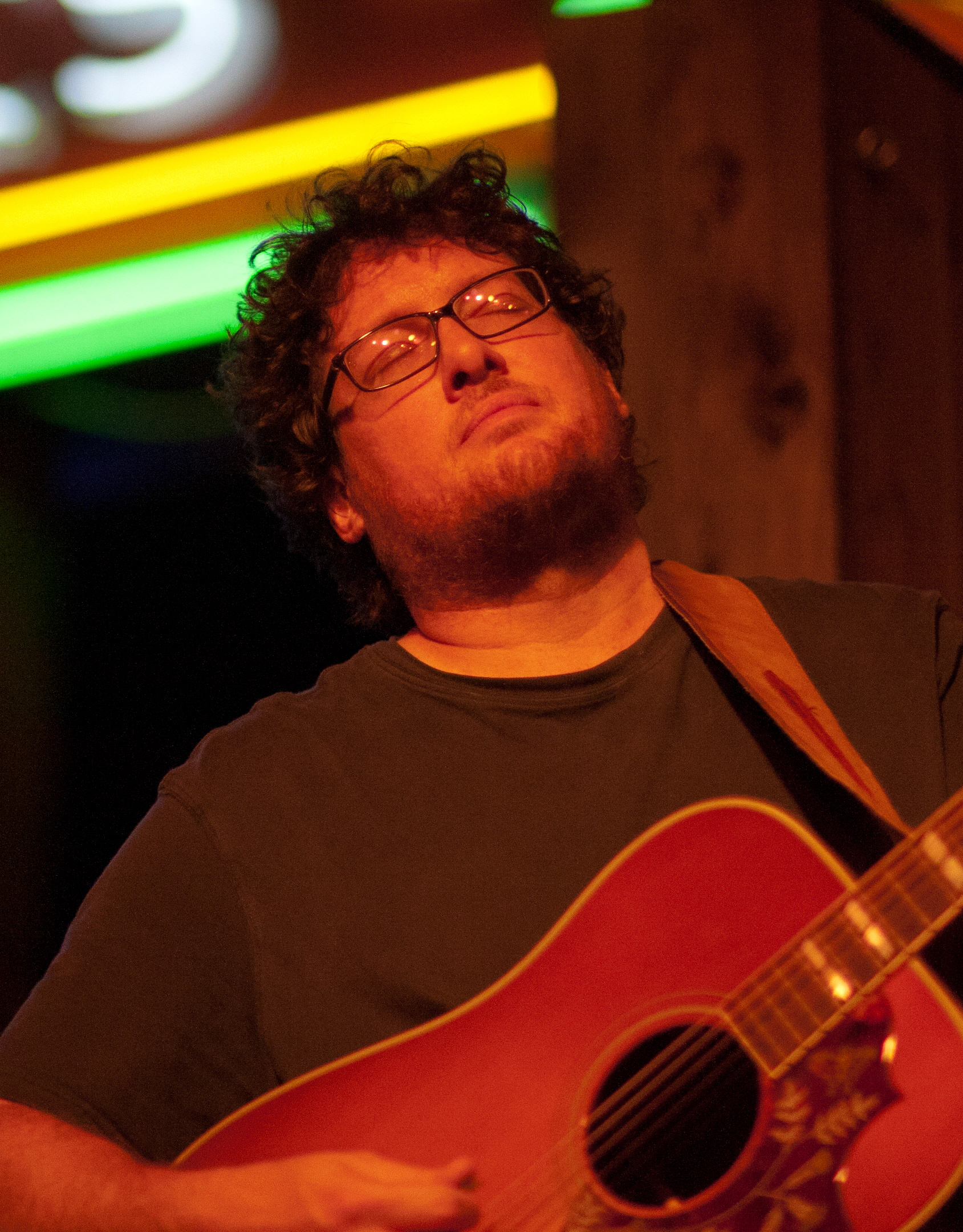 The Gourds at Threadgills:Max Johnston